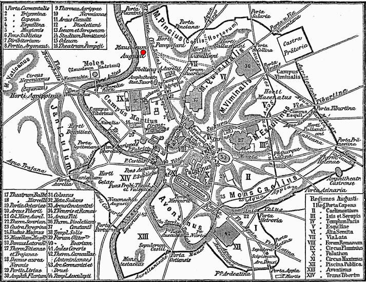 In ancient Rome, location of Augustus Mausoleum, in red. Personnal work on old map in the Commons